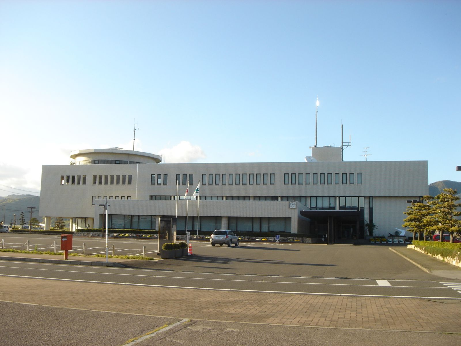 Ono Town Office(大野町),Ono,Gifu,Japan(岐阜県大野町大字大野)で撮影。